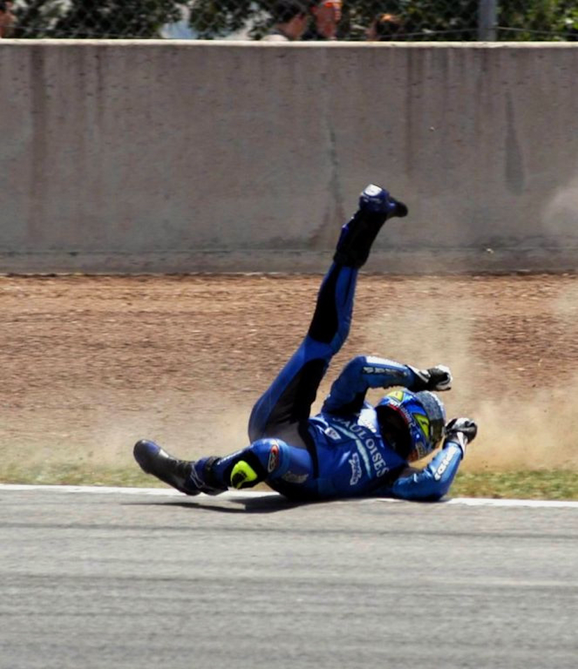 A motorcyclist in full protective gear slides along the tarmac after coming off his bike